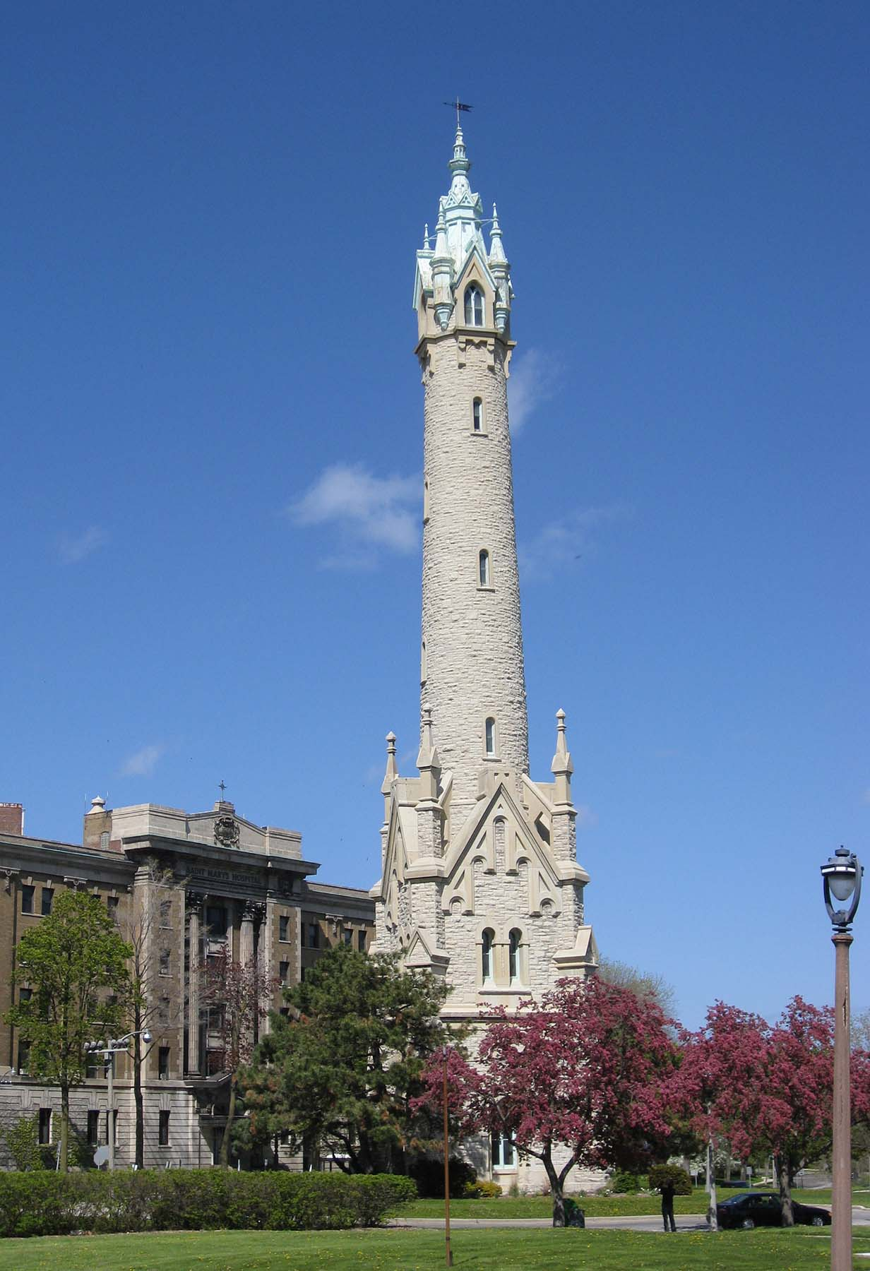 The North Point Water Tower, Milwaukee, Wisconsin. Taken on May 16, 2009, by me. Attribute to Kevin Hansen.